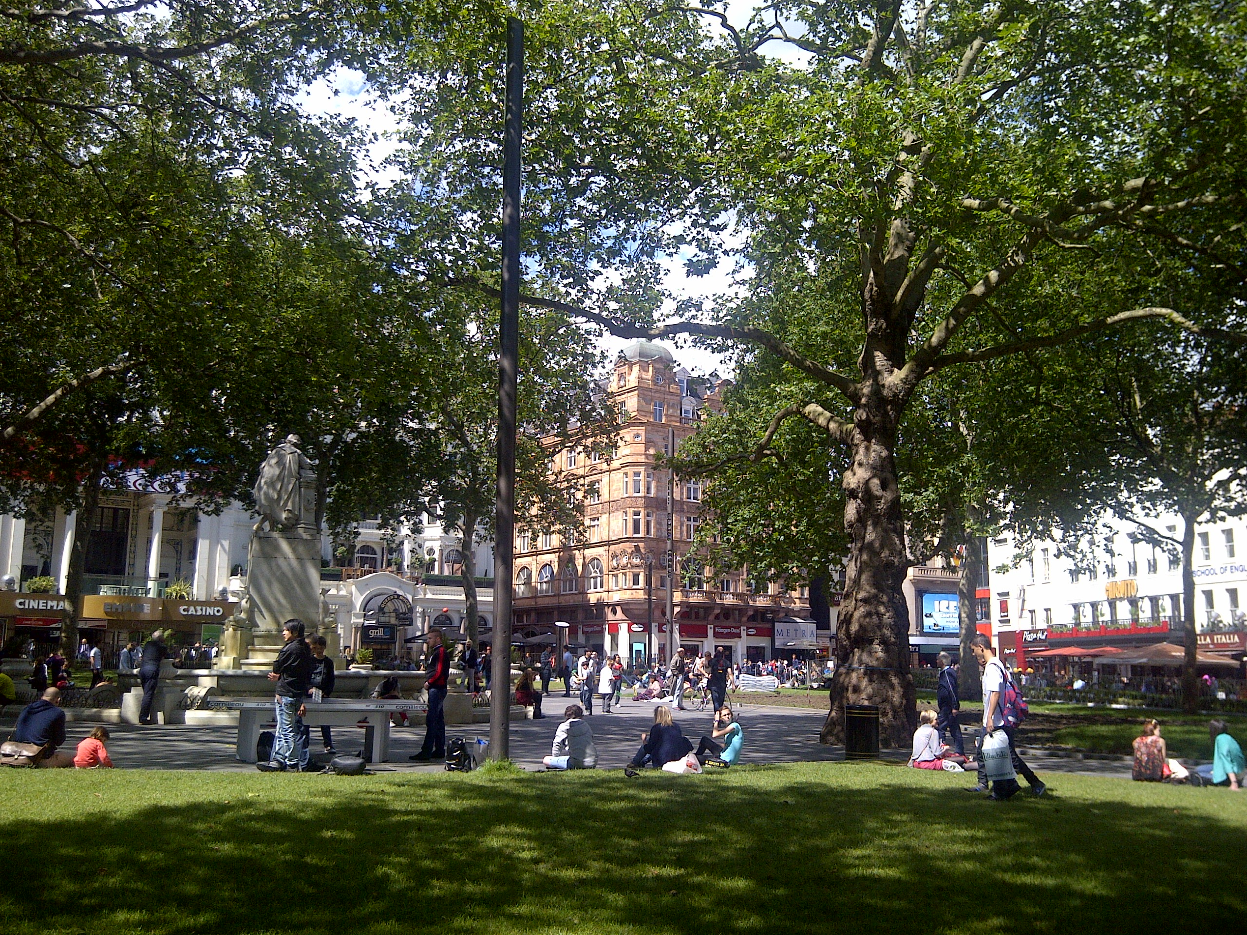 Redeveloped Leicester Square in London, UK